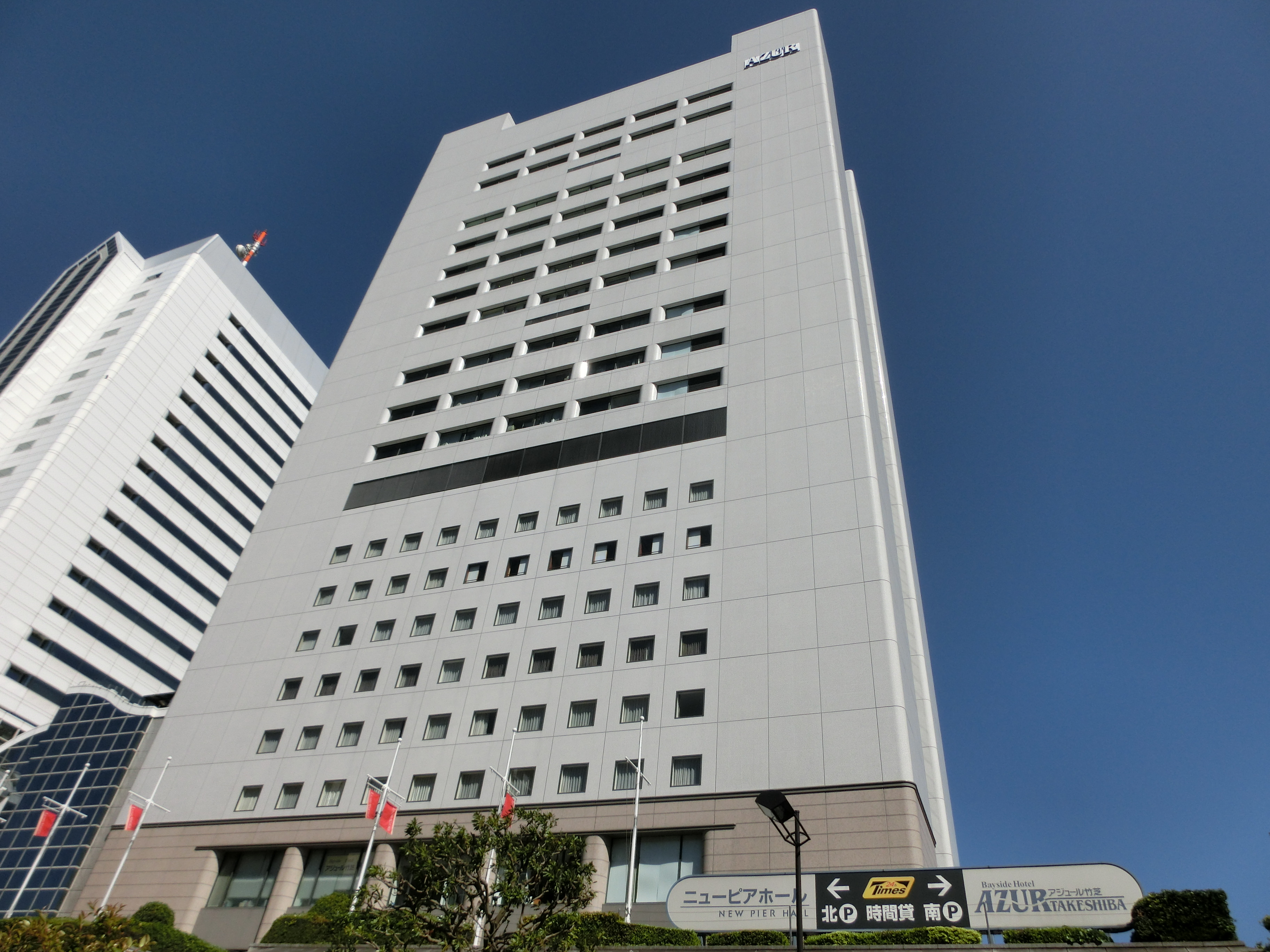 Hotel Azur Takeshiba